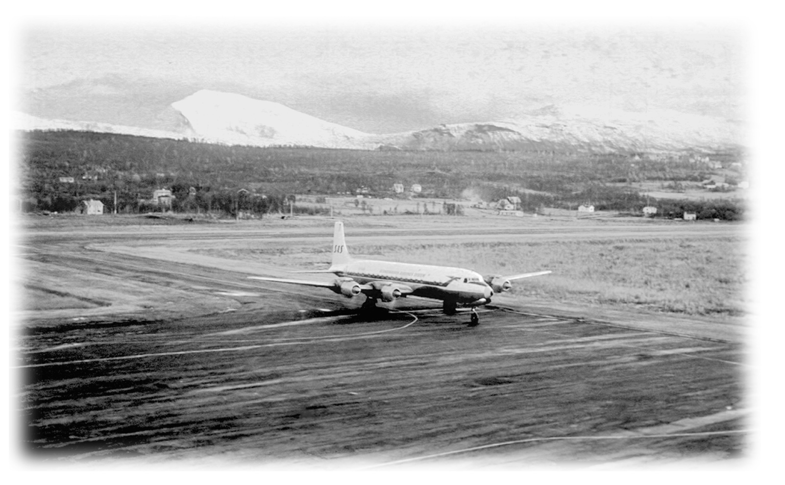 SAS DC-7C at Tromsø Airport